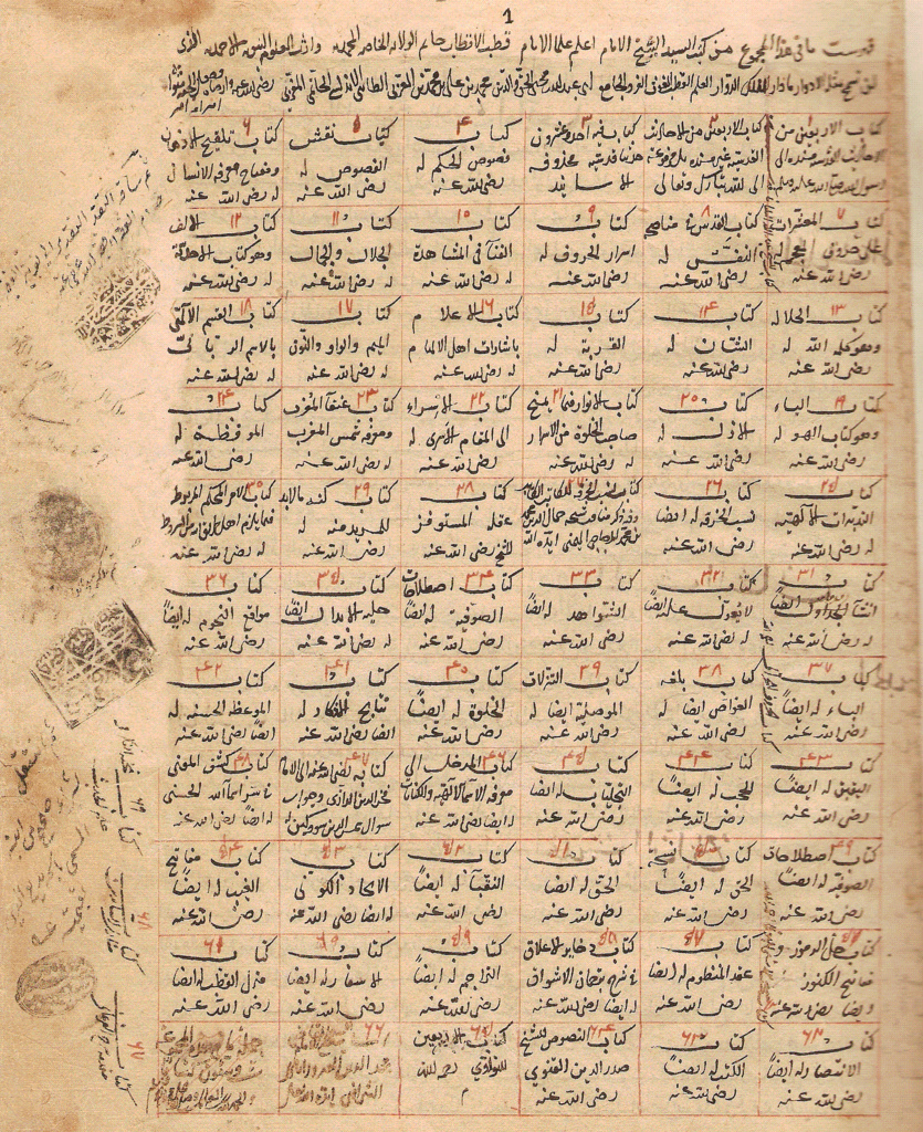 Ibn Arabi's books list, written before 814 Hijri